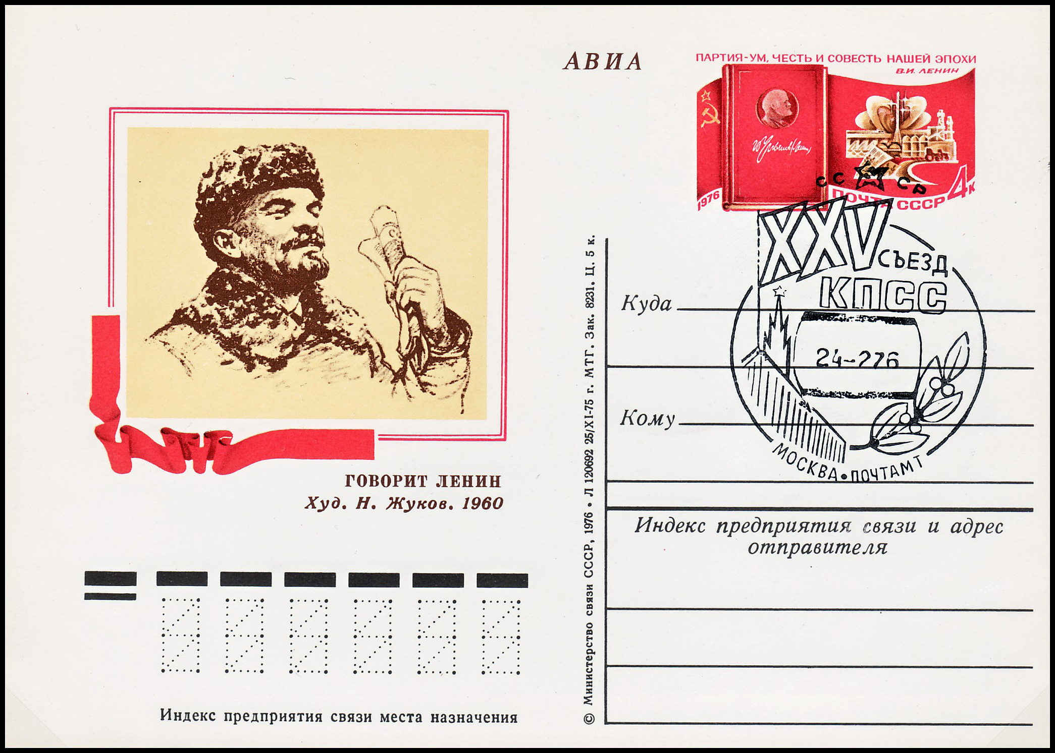 USSR, 1976. Postal card with commemorative stamp. Airmail. "The 106th anniversary of the birth of Lenin / XXV Congress of the CPSU" (CPA Catalogue №34). Stamp: Lenin's book on the background of the red flag; composition symbolizing economic progress in the USSR. Illustration: "Says Lenin" (Reproduction of drawing by N. Zhukov). Painter Y. Artsimenev. Special cancellations: "XXV Congress of the CPSU" 02/24/1976 Moscow, Central Post Office. Postmark with the changing date ; was used during the of the congress. 02/24/1976 - opening day of XXV Congress.